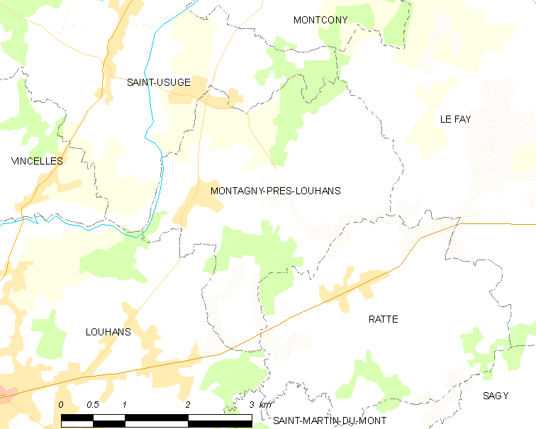 Map of French municipality